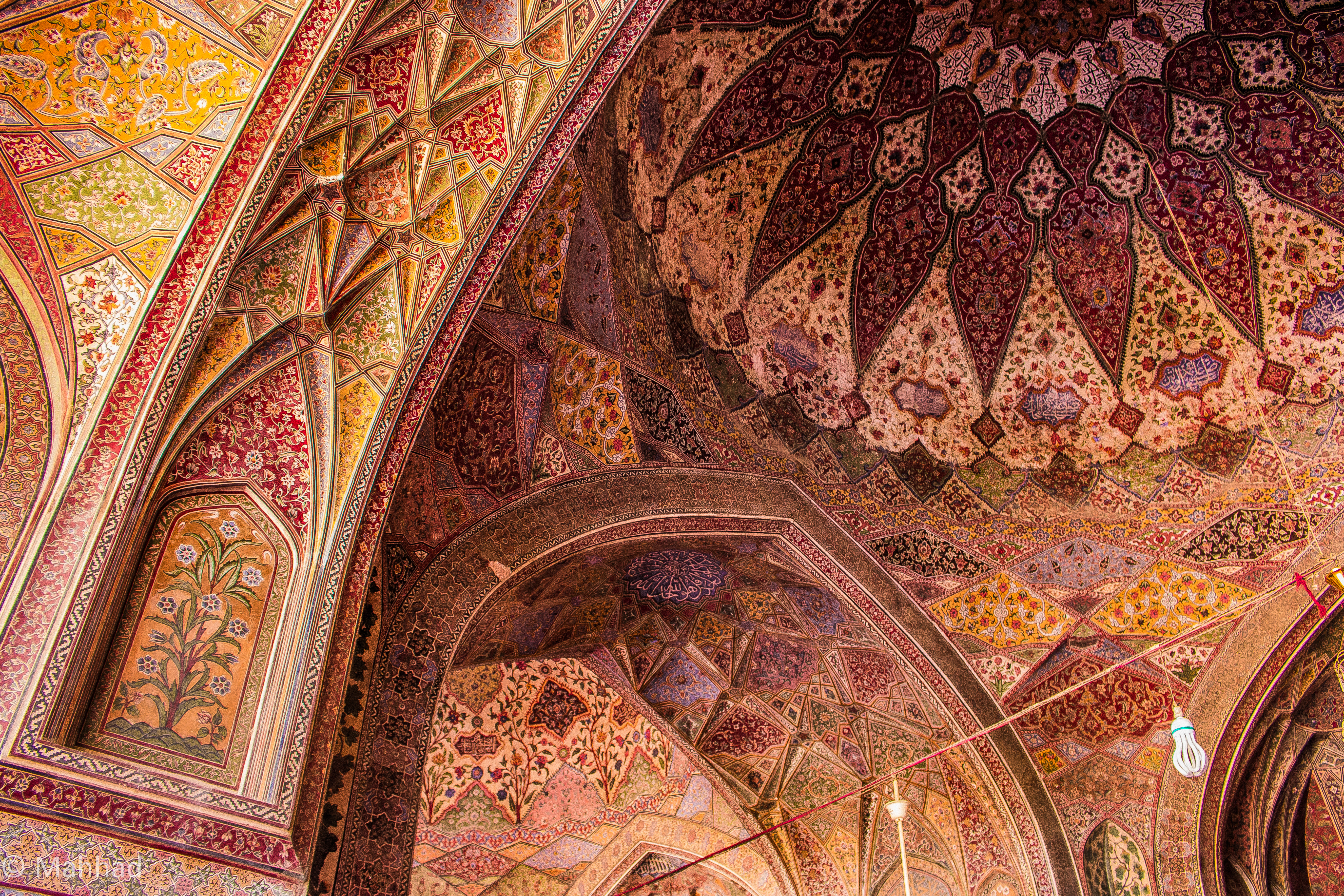 Wazir Khan Mosque This is a photo of a monument in Pakistan identified as the PB-100